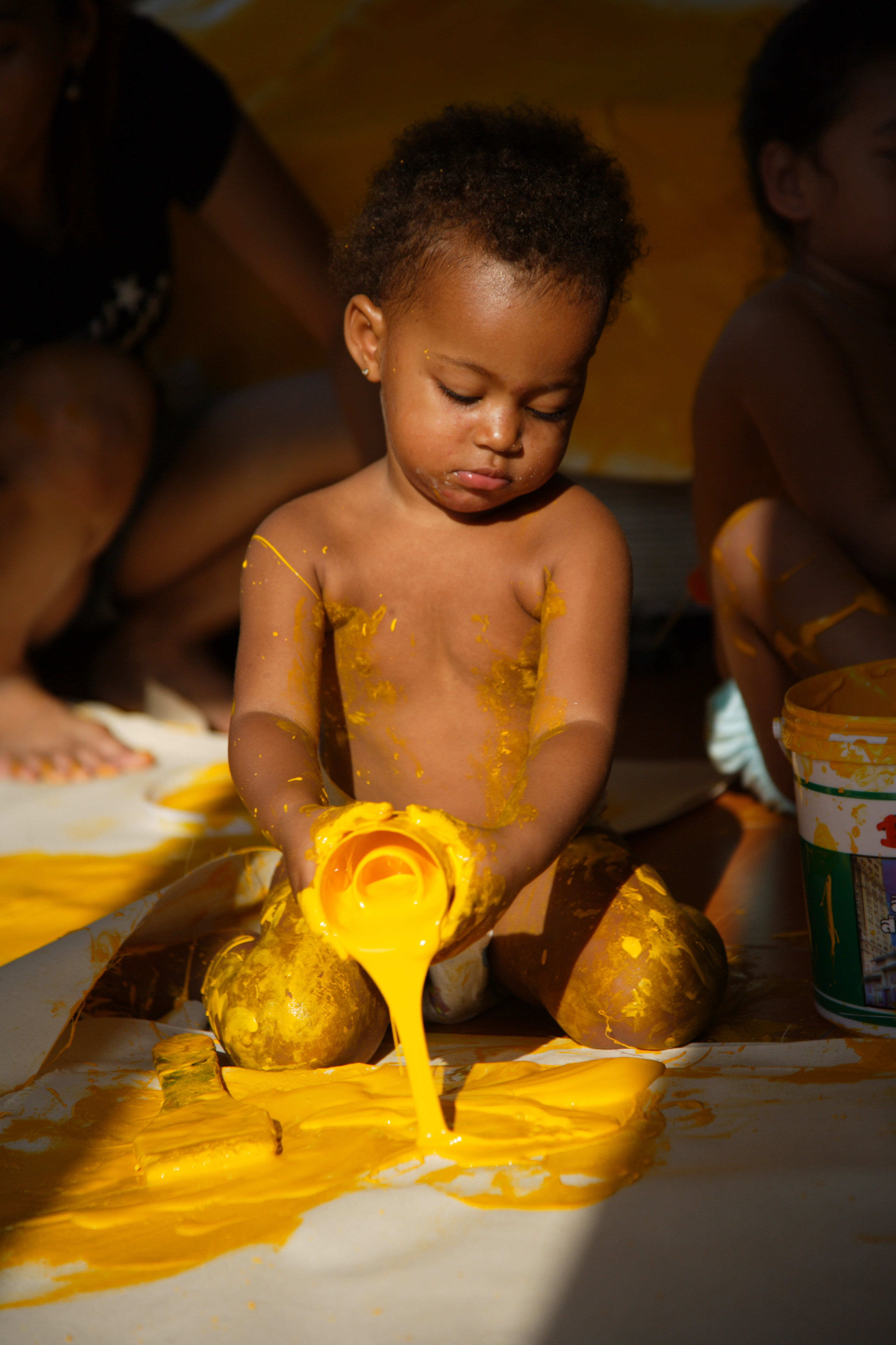 Baby playing with yellow paint. Work by Dutch artist Peter Klashorst entitled Experimental.